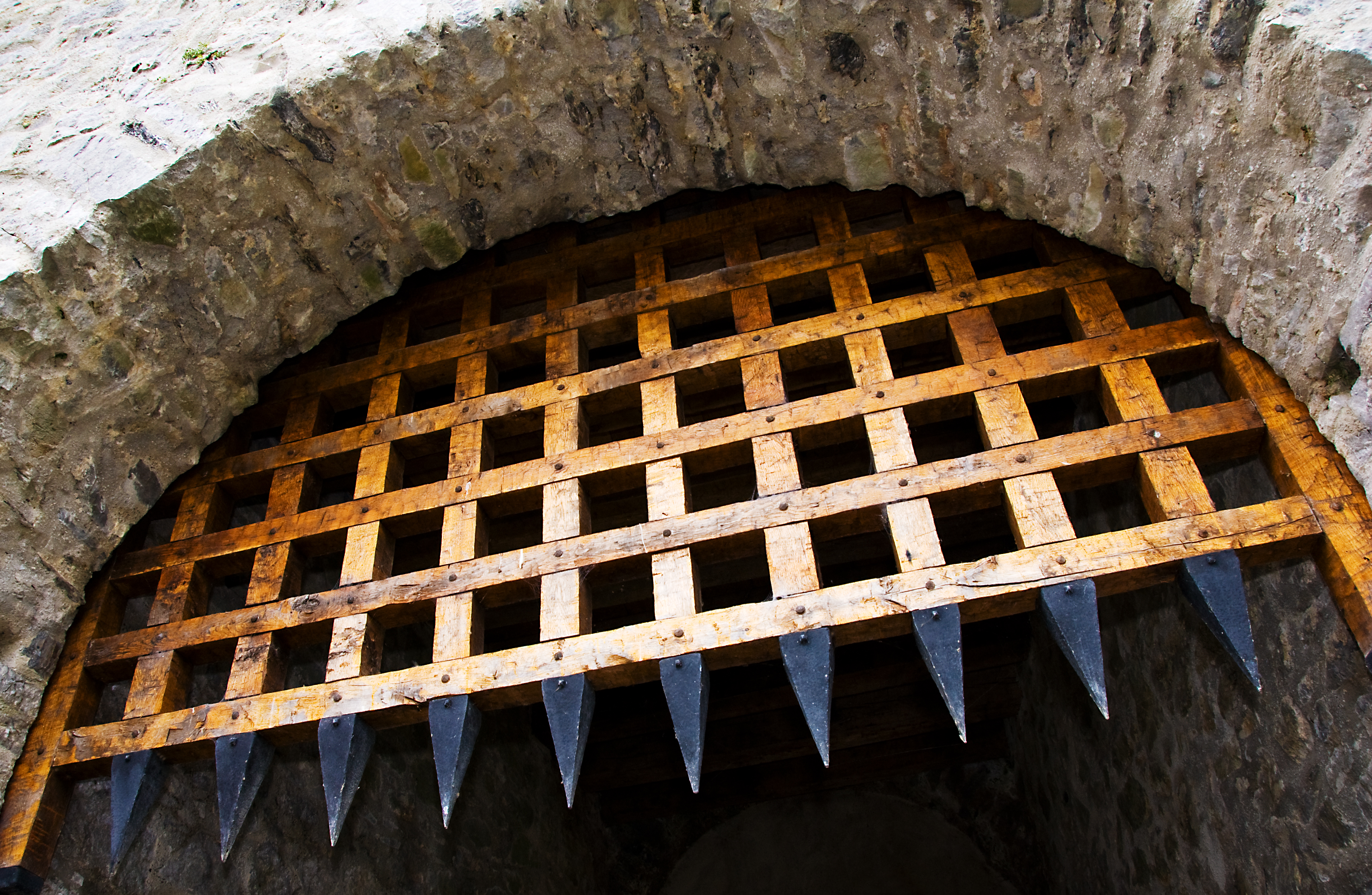 Ireland 2009, Cahir Castle Portcullis